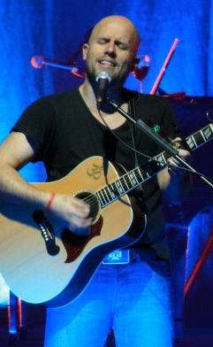 Peruvian singer Gian Marco in concert